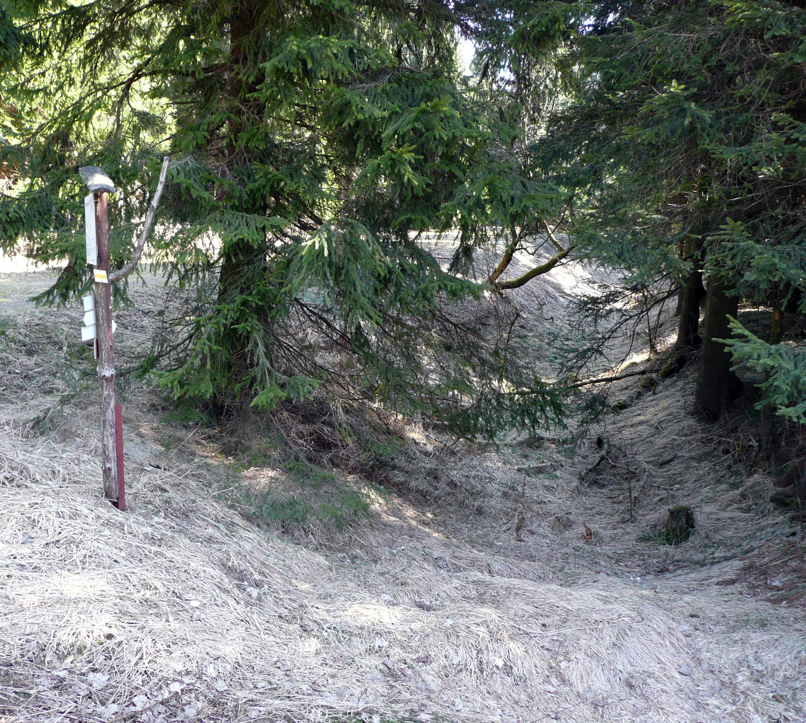 This image schows the Neugrabenflöße, a timber ditch in the Ore Mountains in Saxony.